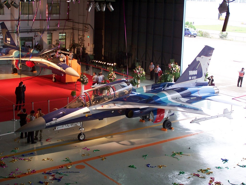 The two-seat F-CK-1D ("Brave Hawk"), with the single-seater F-CK-1C in the background, at their public demo.